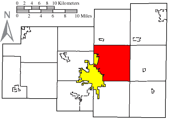 Made by the US Census and modified by myself to highlight the township Map licensed under Modifications under